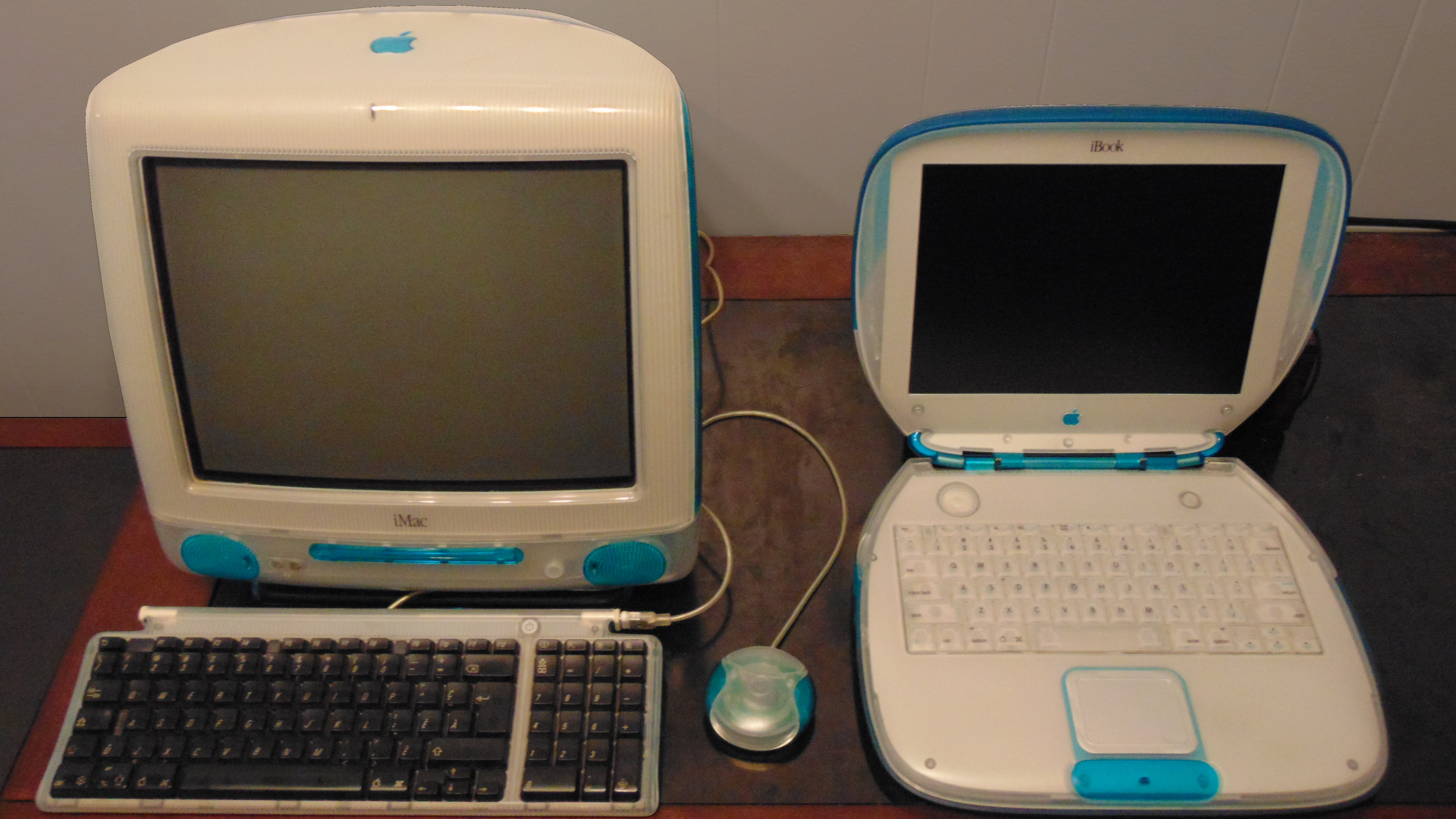 A pair of Apple computers (iMac and iBook, both with a G3 chip) in Blueberry colour.